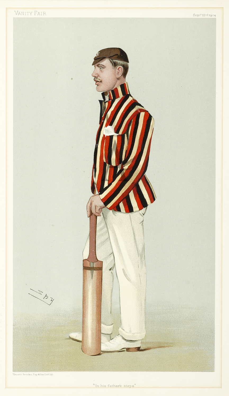 Caricature of Lord Dalmeny. Caption read "In his father's steps".